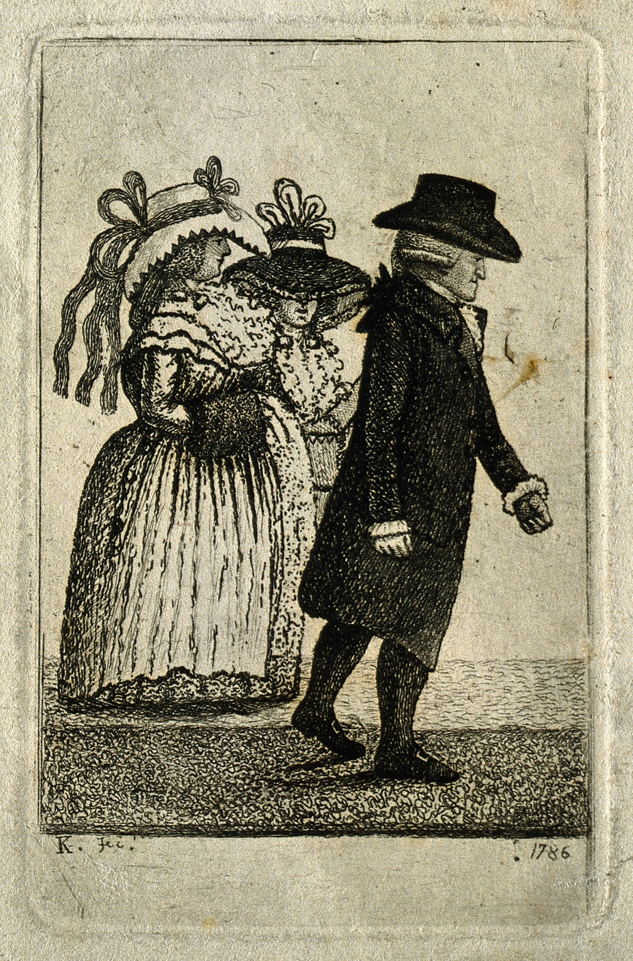 Alexander Hamilton. Etching by J. Kay, 1786. Iconographic Collections Keywords: portrait prints; Alexander Hamilton; etchings